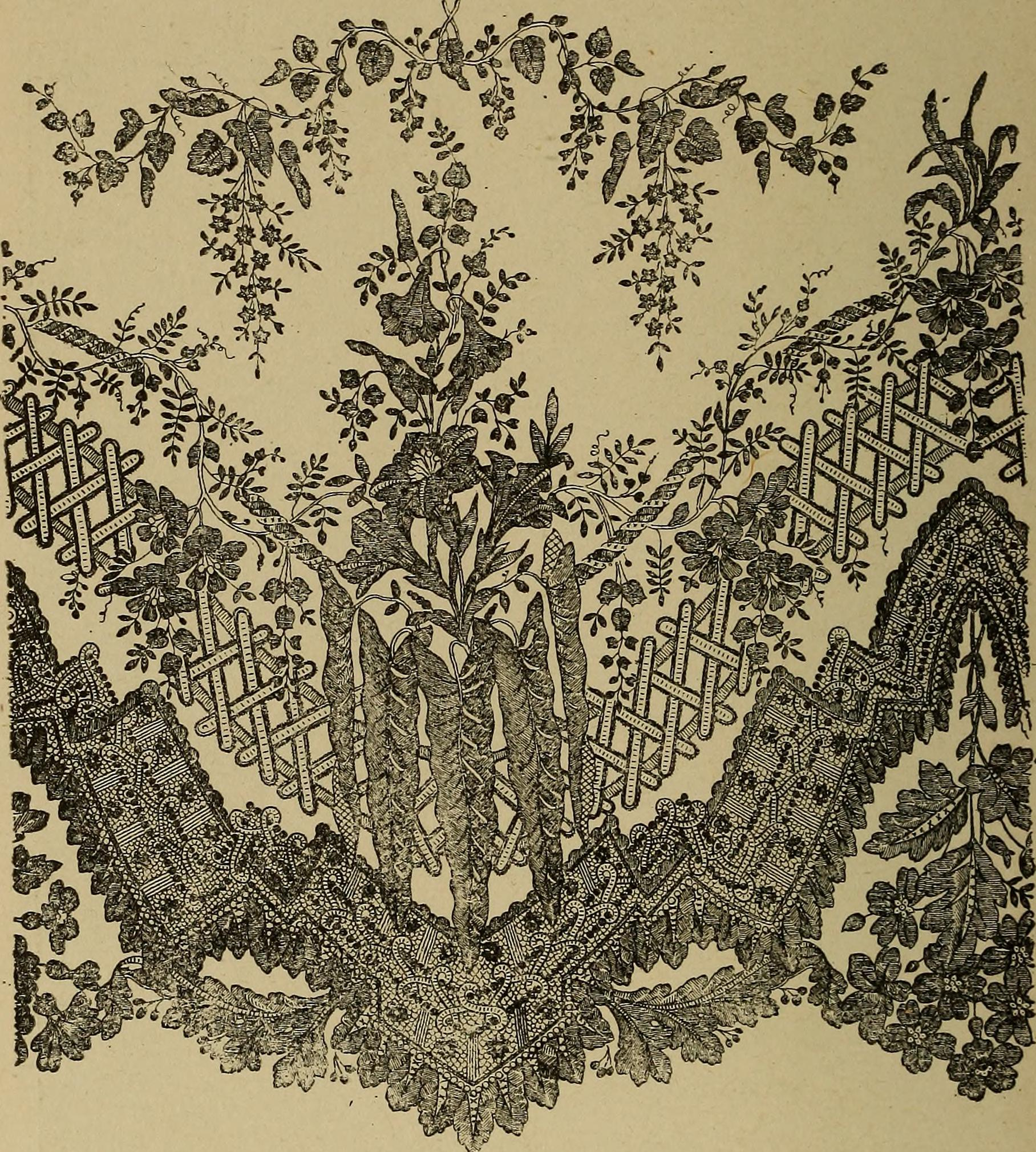 Title: Dentelles et guipures : anciennes et modernes, imitations ou copies. Varieté des genres et des points. 52 portraits documentaires, 249 échantillons de dentelles, collerettes, fraises, manchettes, rabats, etc. Year: 1904 (1900s) Authors: Lefébure, Auguste, 1864- Subjects: Lace and lace making Bobbin lace Publisher: Paris : E. Flammarion Text Appearing Before Image: FlO. 160. — DENTELEES DE BAYEUX. Exécutées aux fuseaux. 250 BENTELLE DU CALVADOS. XIX SILCLE Text Appearing After Image: FiG. 167. — VOLANT EN CHANTILLY. Exécuté aux fuseaux. Fabriqué à Bayeux. (Offert à rimpéralrice en 1860, par la ville de Bayeu.v.) 4.j MX SIKCLE. DENTELLE DU CALVADOS. 251